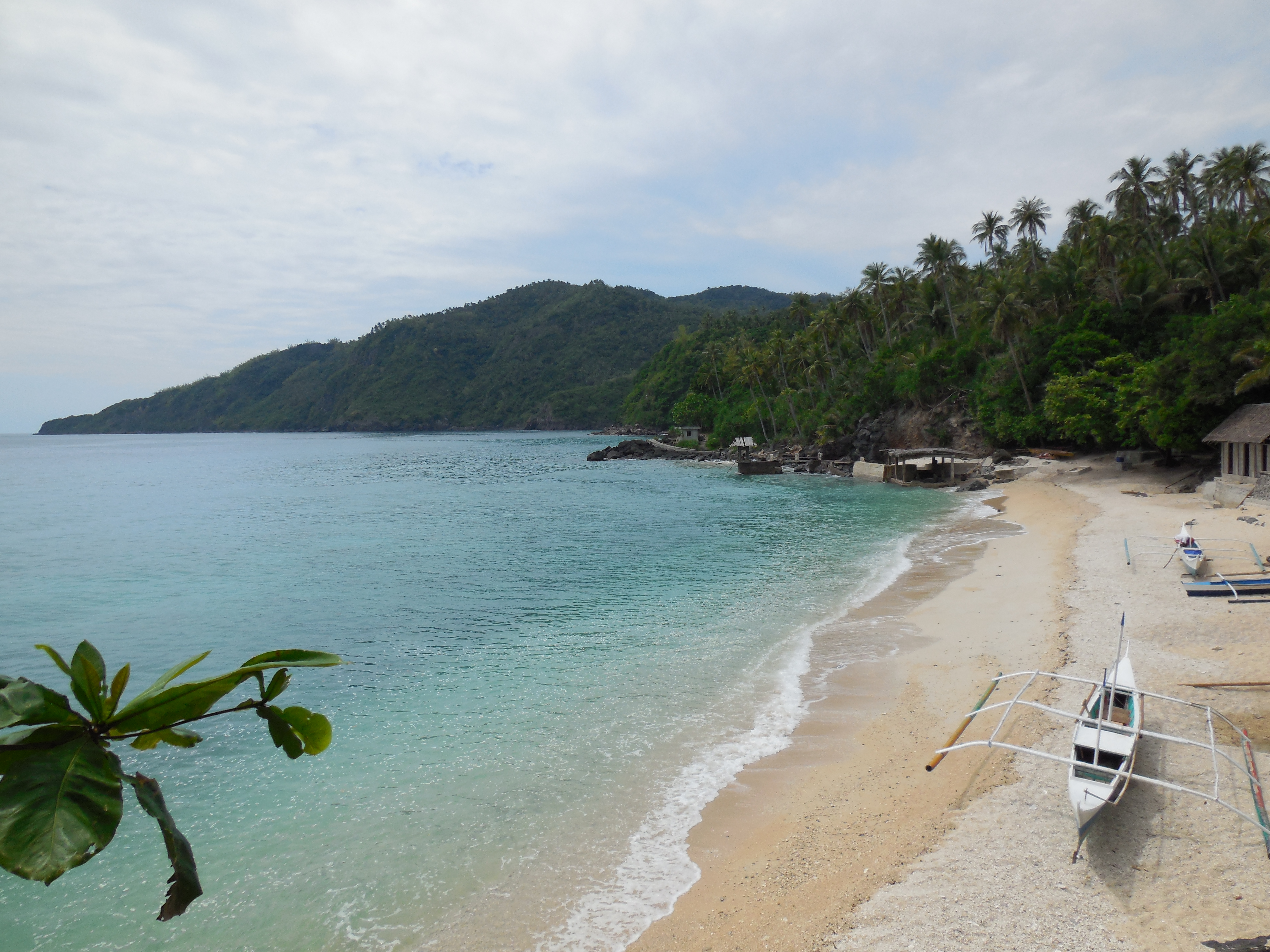 Macat-ang Beach in Barangay Mainit, Banton, Romblon, one of the island's white sand beaches.